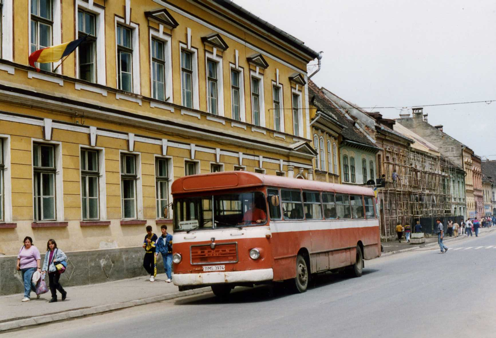 MS registration for Mureş county for list of Romanian counties and registration letters,see The 31 at the start of the registration is often found on buses in the system introduced in 1966 until 1992, though the old style plates were valid until late 2000 1 to 19 - automobiles, since 1990 all private vehicles, regardless of type 20 - reserved for automobiles, but never used 21 to 30 - light commercial vehicles 31 to 40 - heavy commercial vehicles; buses 41 to 45 - tractors 46 to 50 - motorcycles. see this excellent wikipedia page for a conspectus of